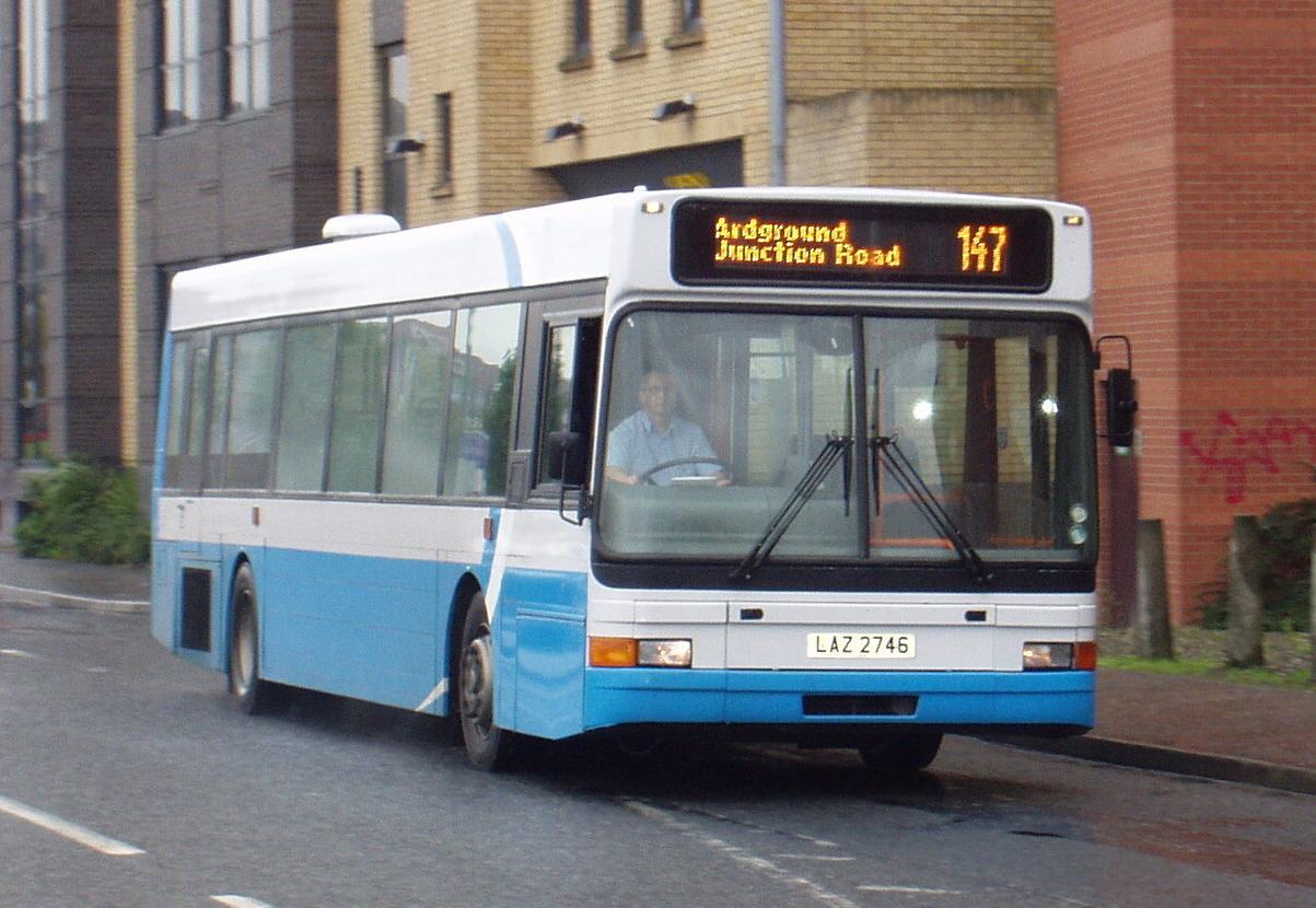 Ulsterbus bus 2746 (reg. LAZ 2746) in Derry.